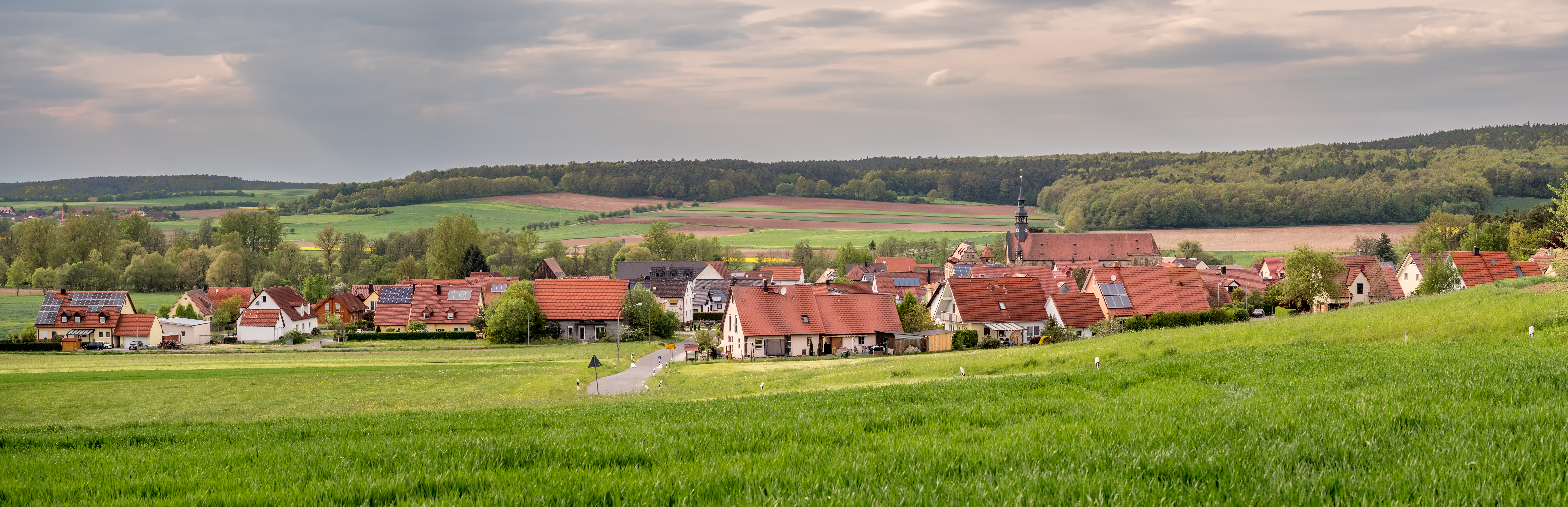 View of Schlüsselau from the south